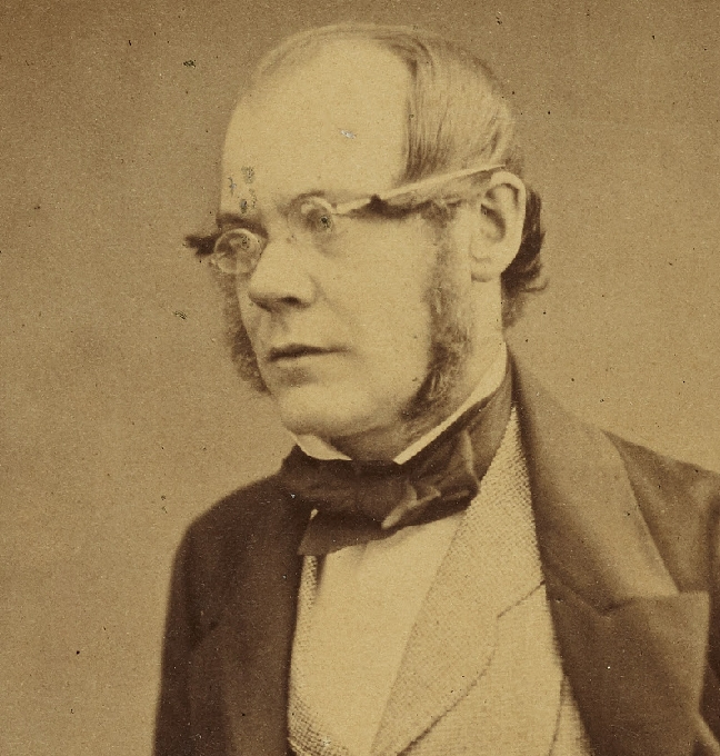 David Thomas Ansted (5 February 1814 – 13 May 1880) was an English geologist and author.